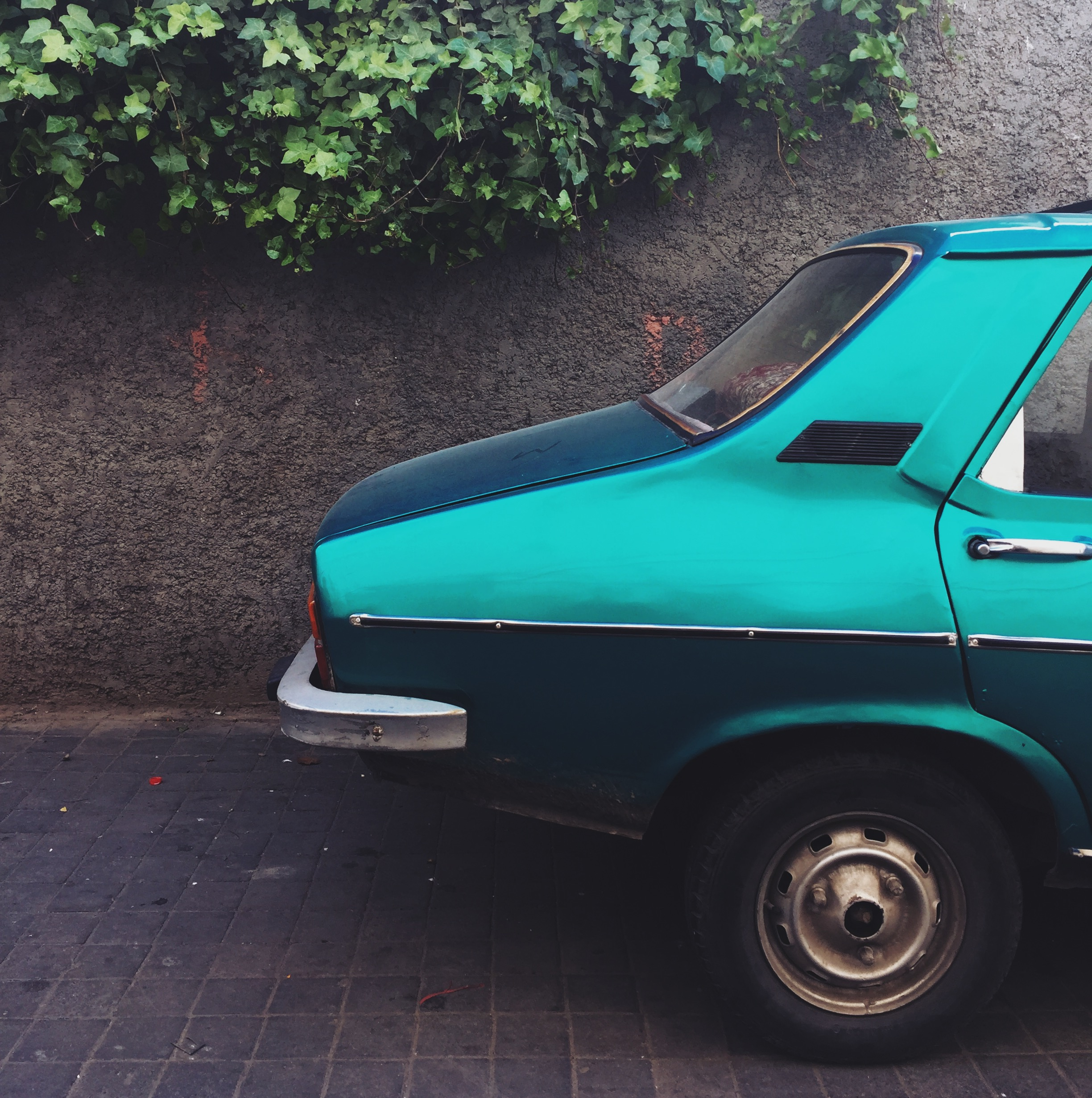 A turquoise Renault 12 sedan parked in the Medina of Casablanca. This is an image with the theme "Africa on the Move or Transport" from: Morocco